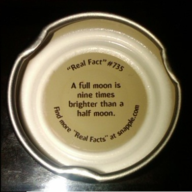 Snapple "Real Fact" # 35: "A full moon is nine times brighter than a half moon."